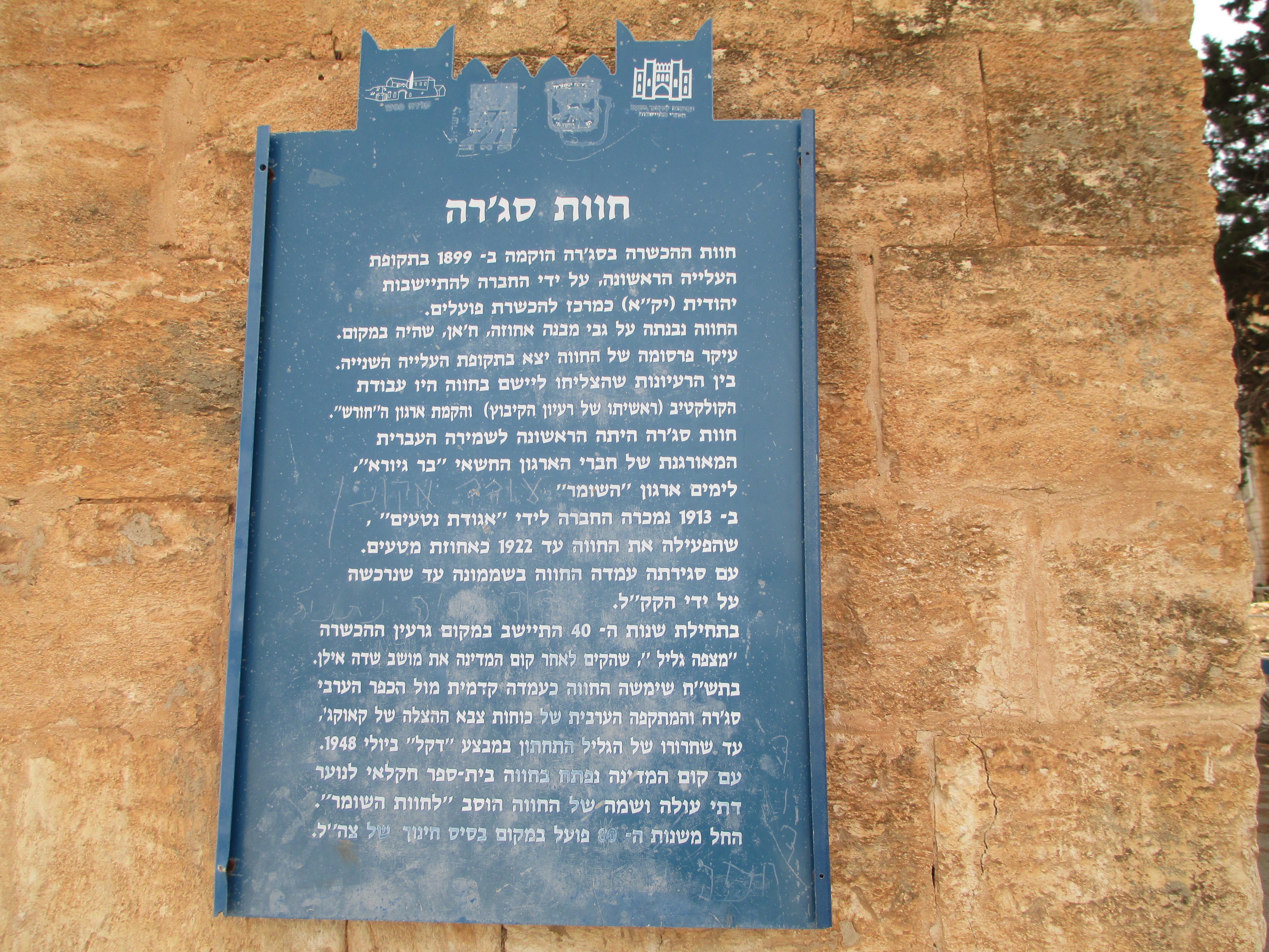 Hashomer farm